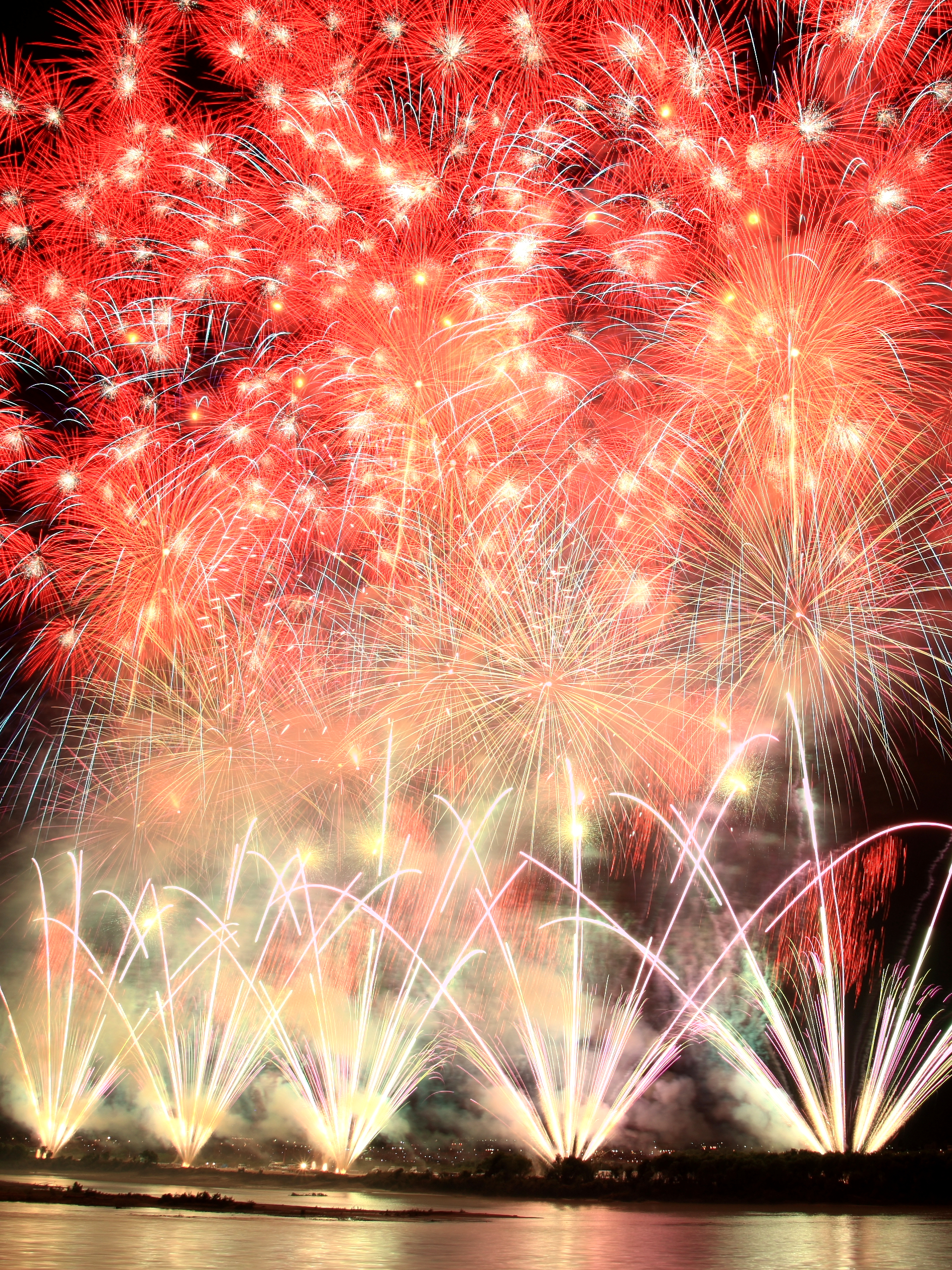 Tenchijin Fireworks at Nagaoka Festival in 2011. Original file is File:Tenchijin Fireworks at Nagaoka Festival 2011.JPG.